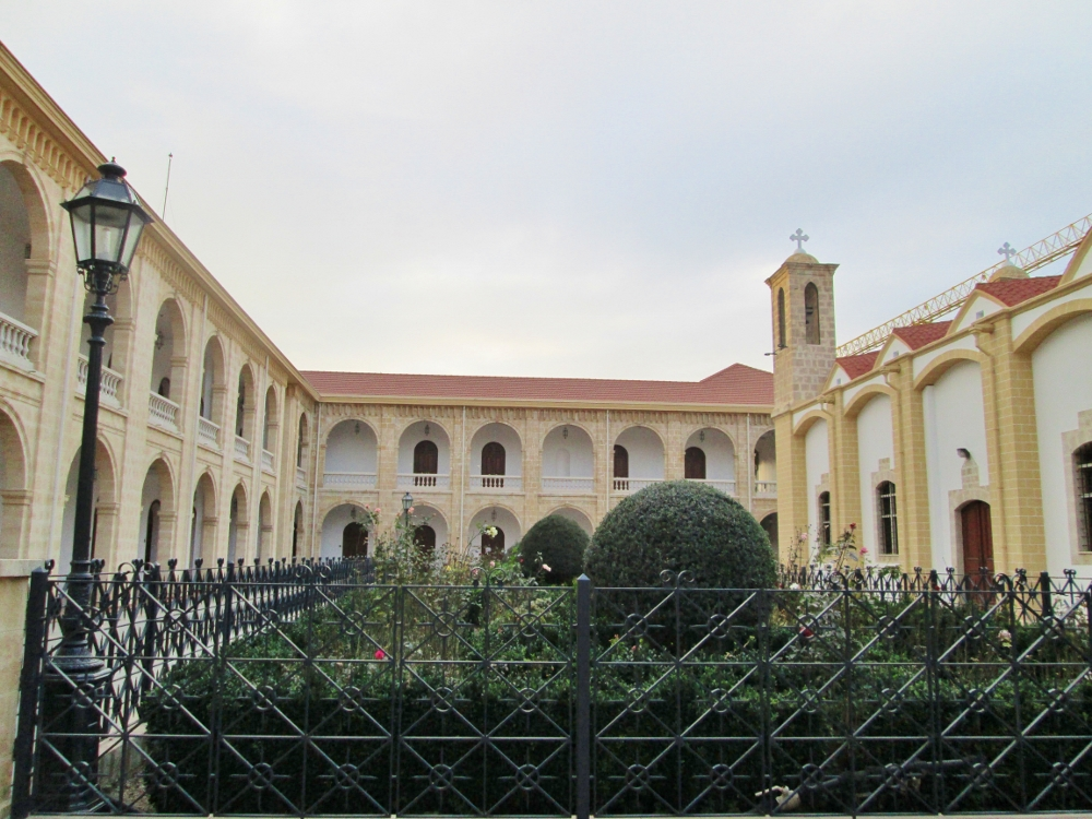 Kykkos Orthodox Christian Monastery Nicosia Republic of Cyprus